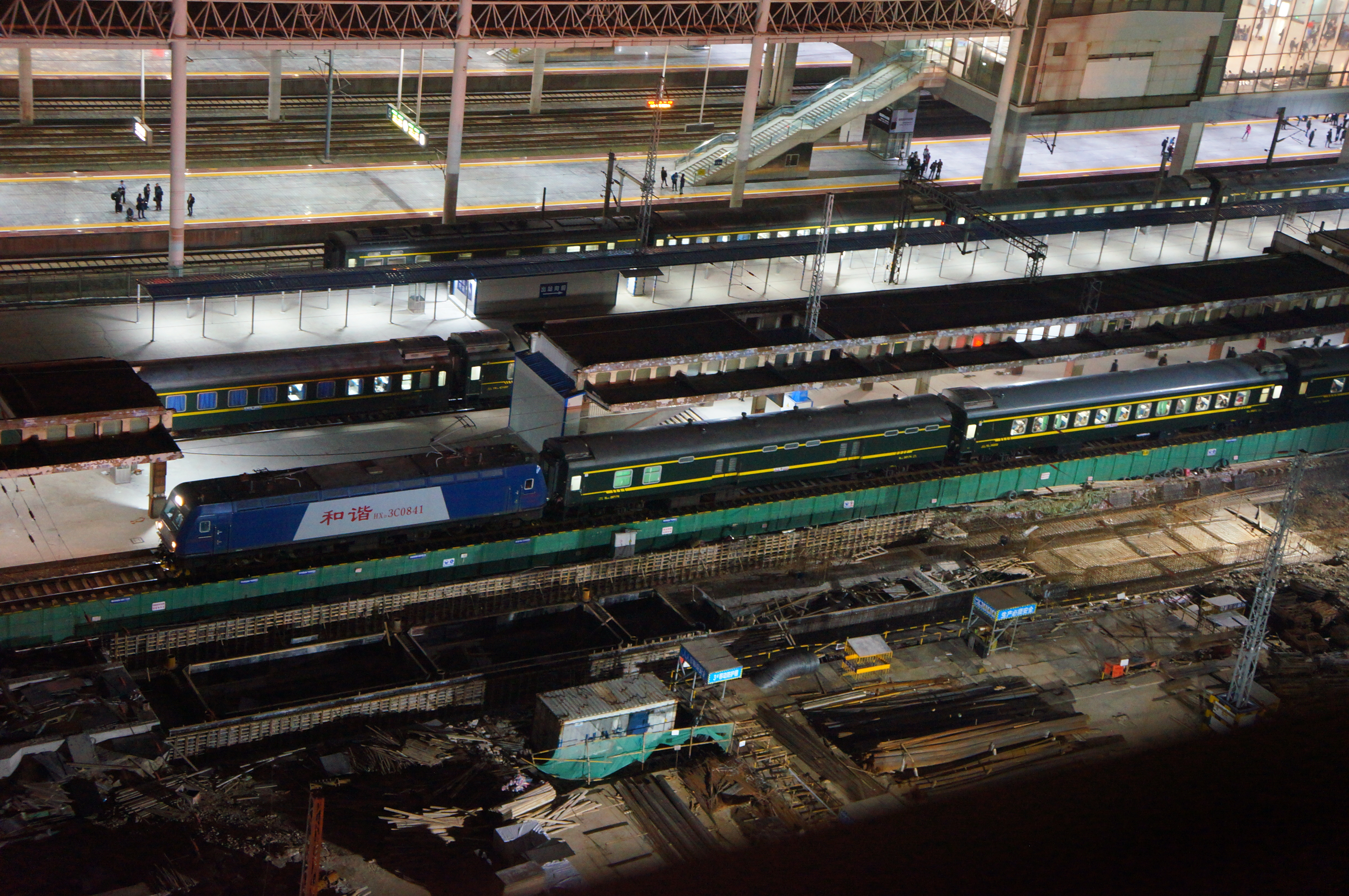 Coincidently last day of service (to Changzhibei) hauled by a Nanjing East-based HXD3C (now based in Hefei). T110 on Platform 5.